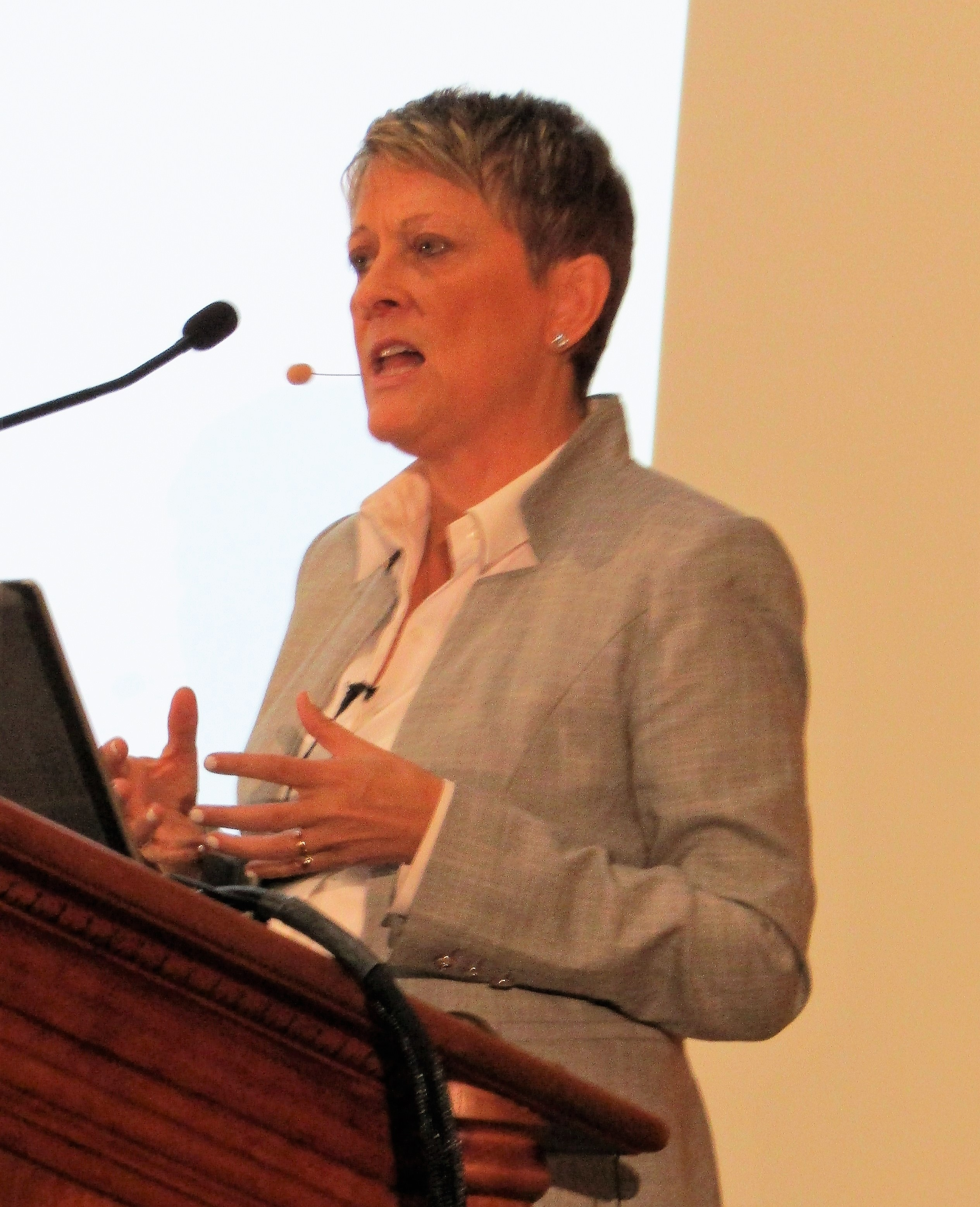 Kathryn Edin giving a speech at the Gordon B. Hinckley Alumni and Visitors Center.